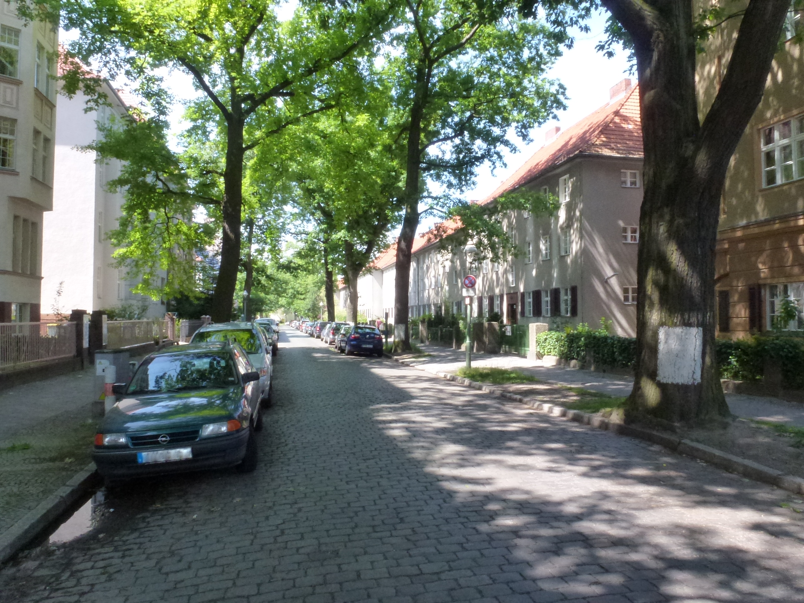 Berlin-Lichterfelde Tulpenstraße